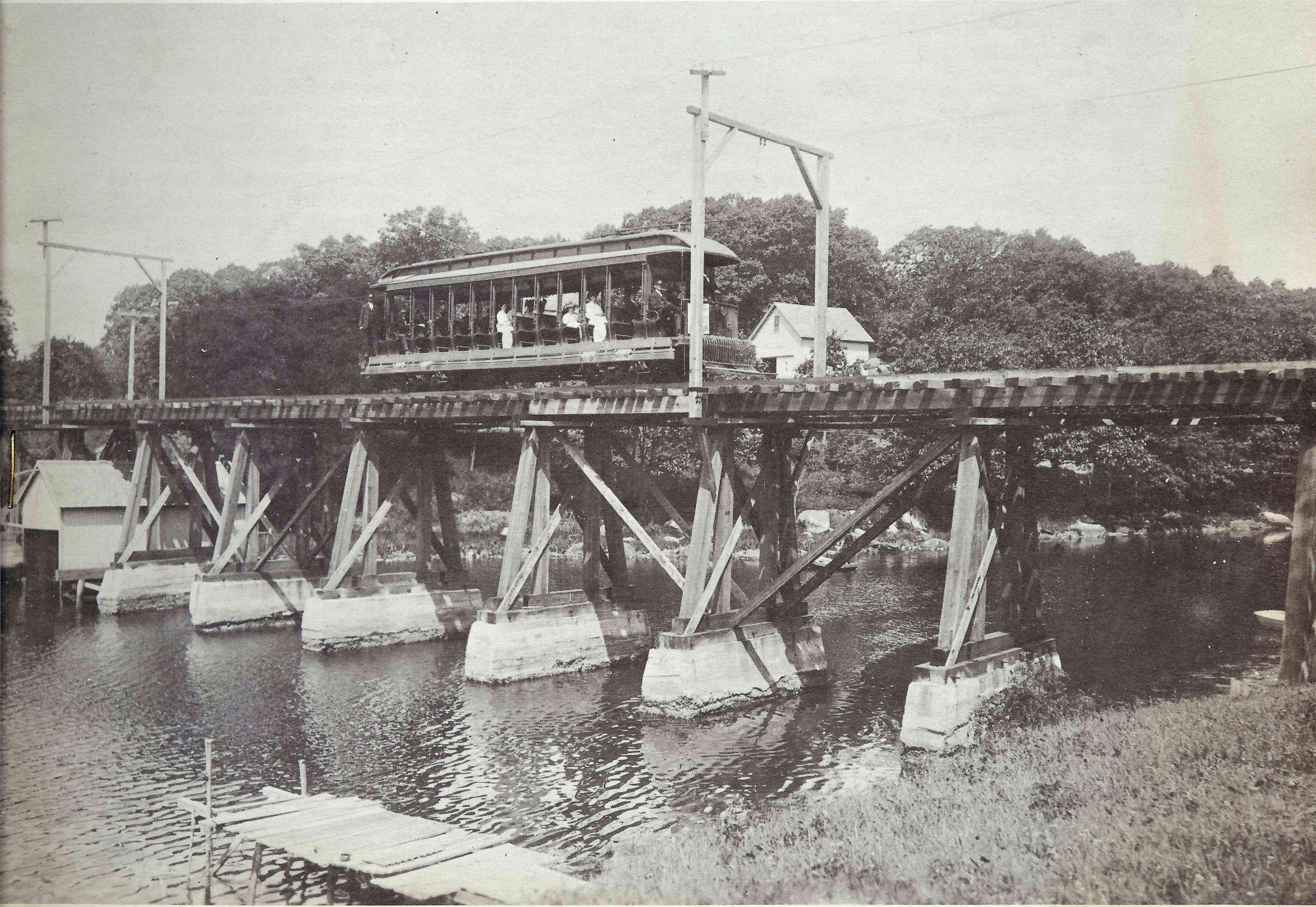 A 14-bench open car of the New london & East Lyme Street Railway crossing the Smith Cove trestle in 1906